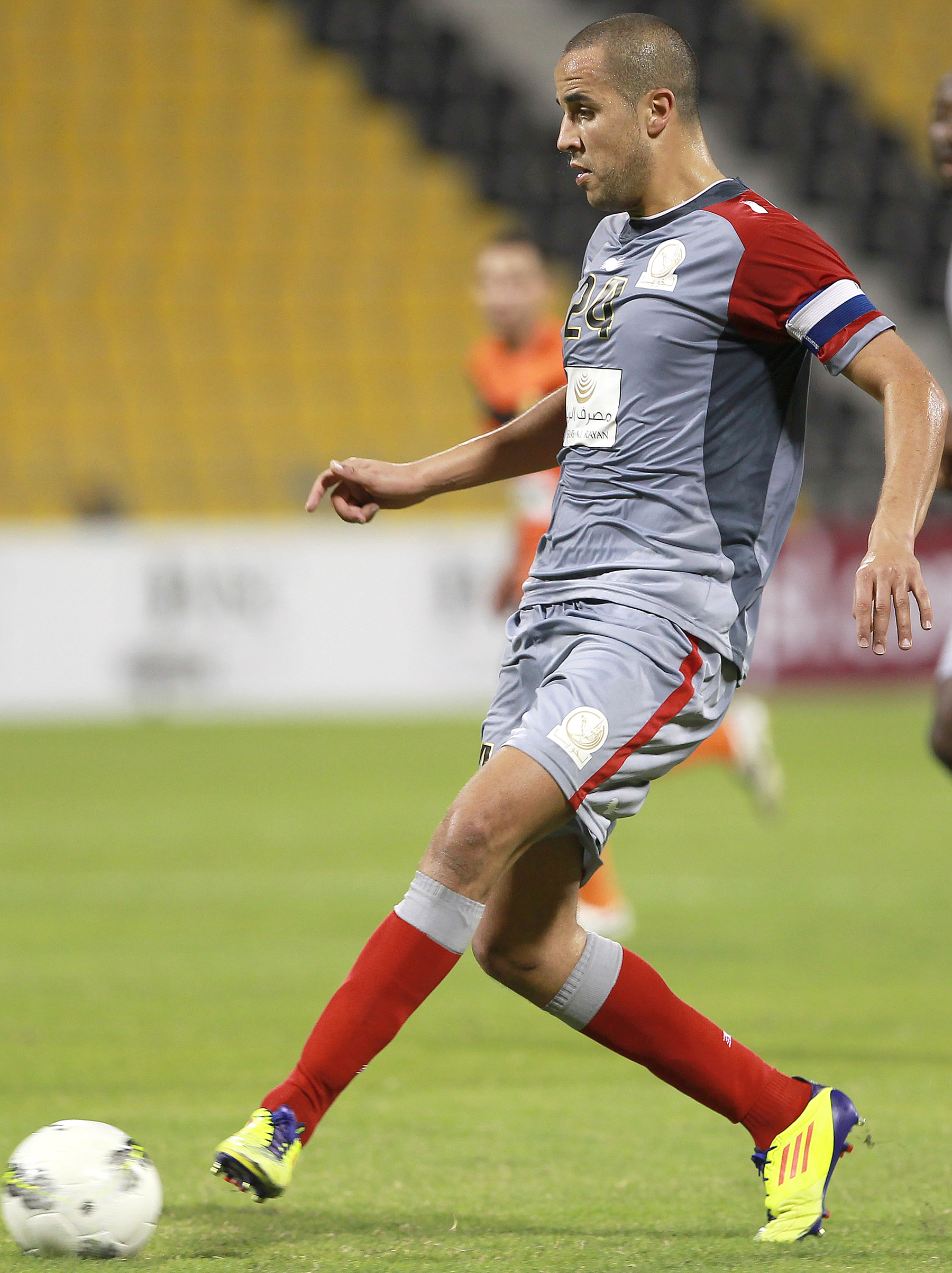 Algerian Madjid Bougherra, who used to play for Rangers, but currently turns out for Lekhwiya, passes the ball during a Qatar Stars League match. Pic by AK Bijuraj